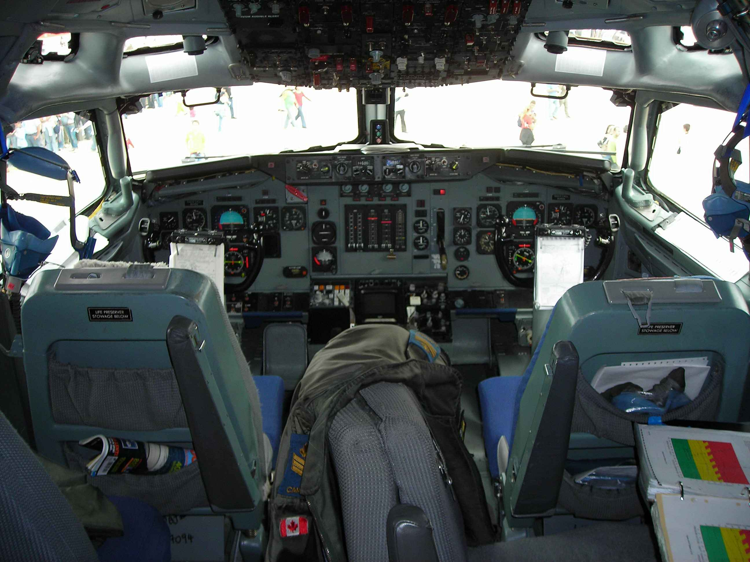 Cockpit of AWCS aircraft E-3 Sentry. Picture taken during "Giornata Azzurra" 2006 (Italian Air Force airshow) at Pratica di Mare AFB, Italy.